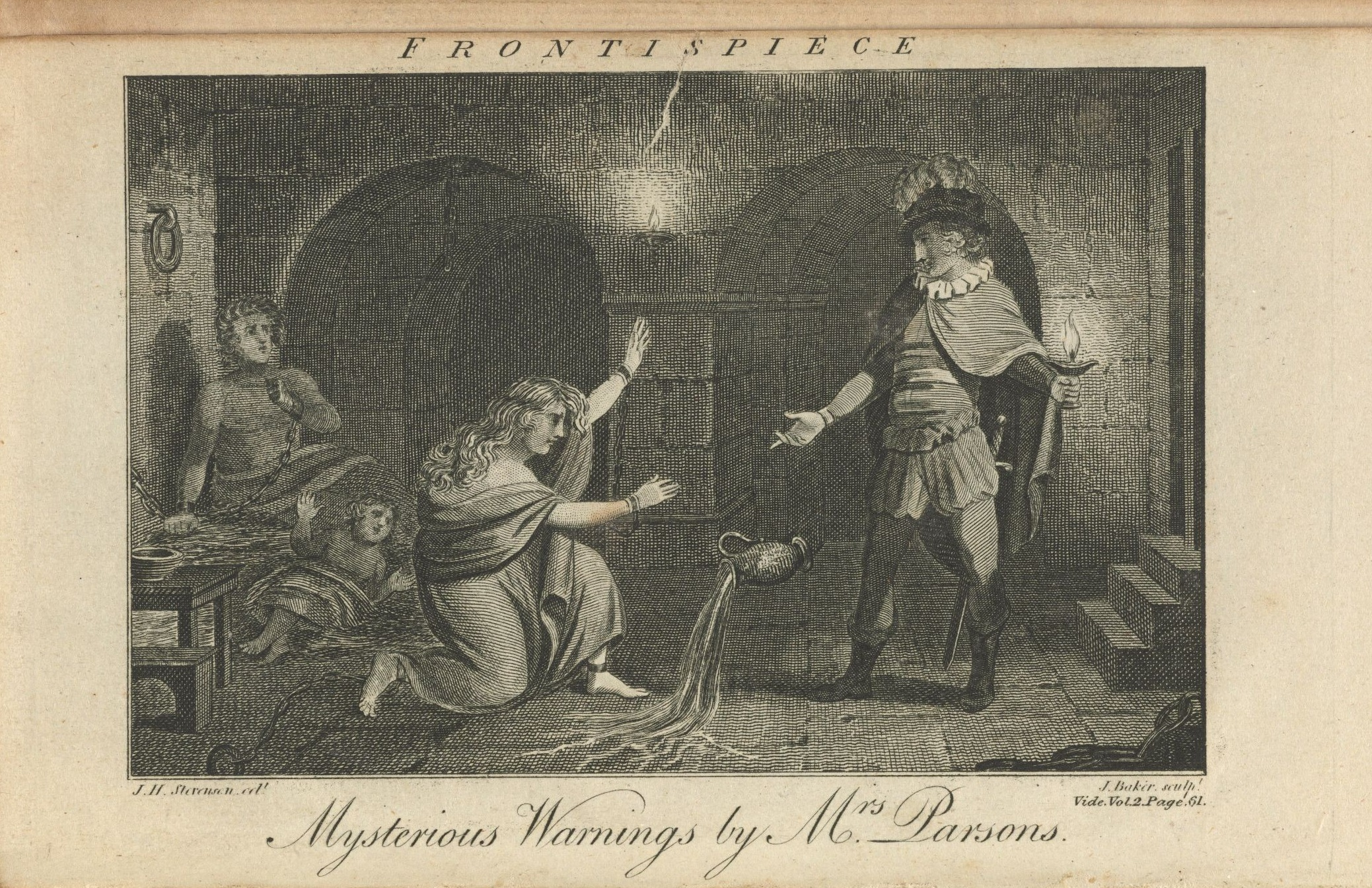 Frontispiece from The Mysterious Warning, a German Tale, 1796, by Eliza Parsons. *EC75 P2524 796m, Houghton Library, Harvard University